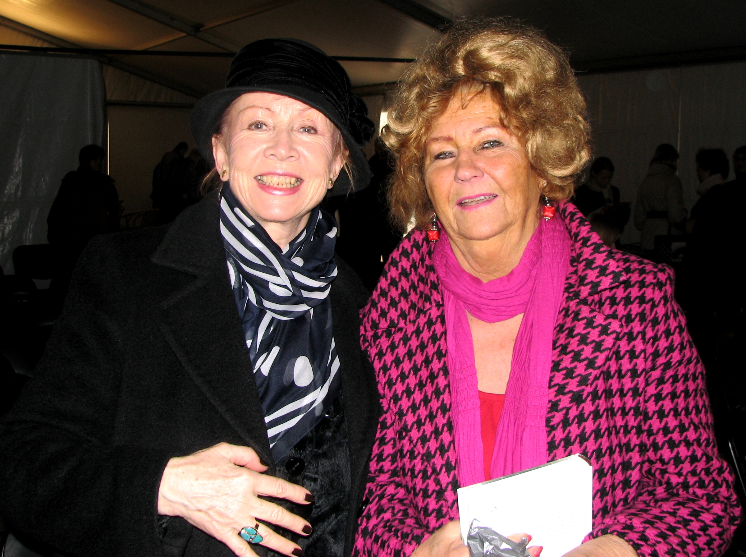 Valve Kirsipuu (right) in Tallinn Literature Festival HeadRead.